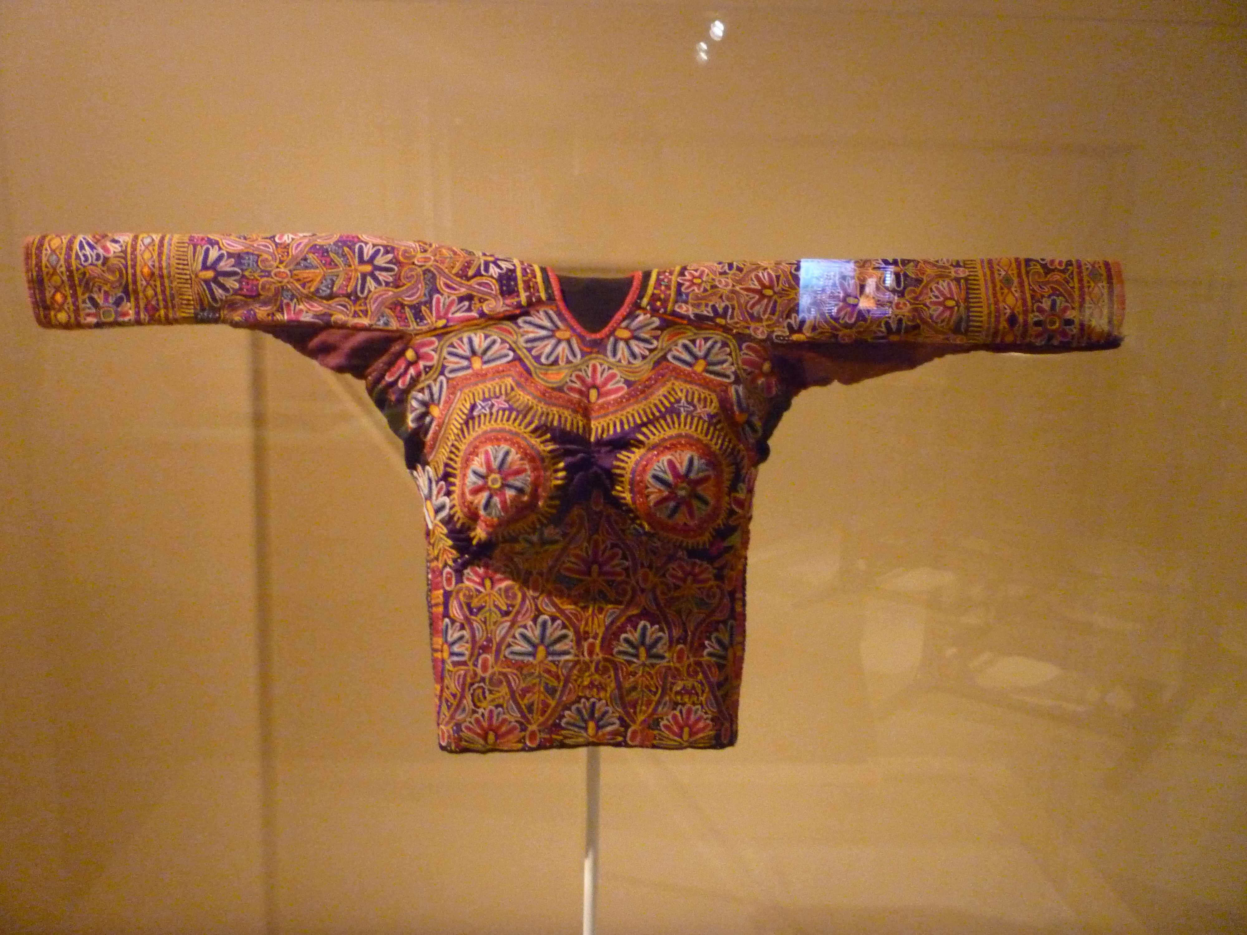 Woman's blouse. Cotton and glass. Kutch, Gujarat.